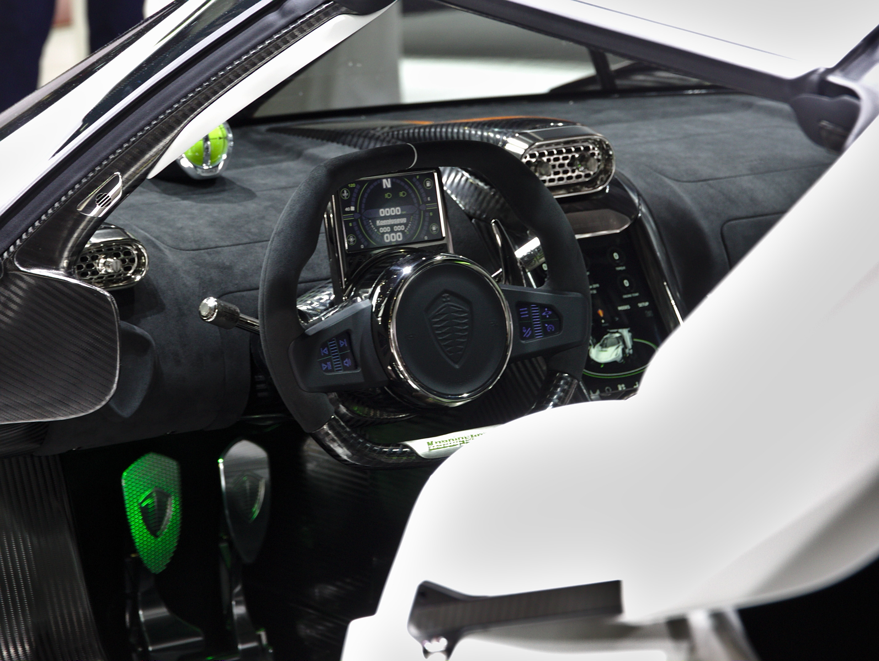 Koenigsegg Jesko at Geneva Motor Show 2019